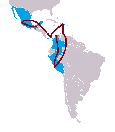 This is the Route Map for The Amazing Race Latin America Season 5